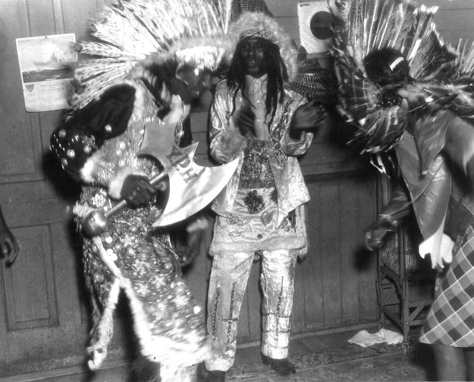 New Orleans Mardi Gras, 1942. "Yellow Pocahontas Indians" at residence of Chief Paul Joseph during Mardi Gras at 1911 Marais Street in New Orleans, Louisiana. Note: Actually shows festivities on St. Joseph's Day, not Mardi Gras day.